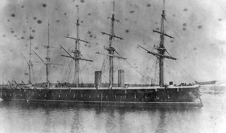 HMS Agincourt (British broadside ironclad, 1868) Photographed after the completion of her 1875-1877 refit, when alternate gunports were enlarged to accommodate larger muzzle-loading rifles.